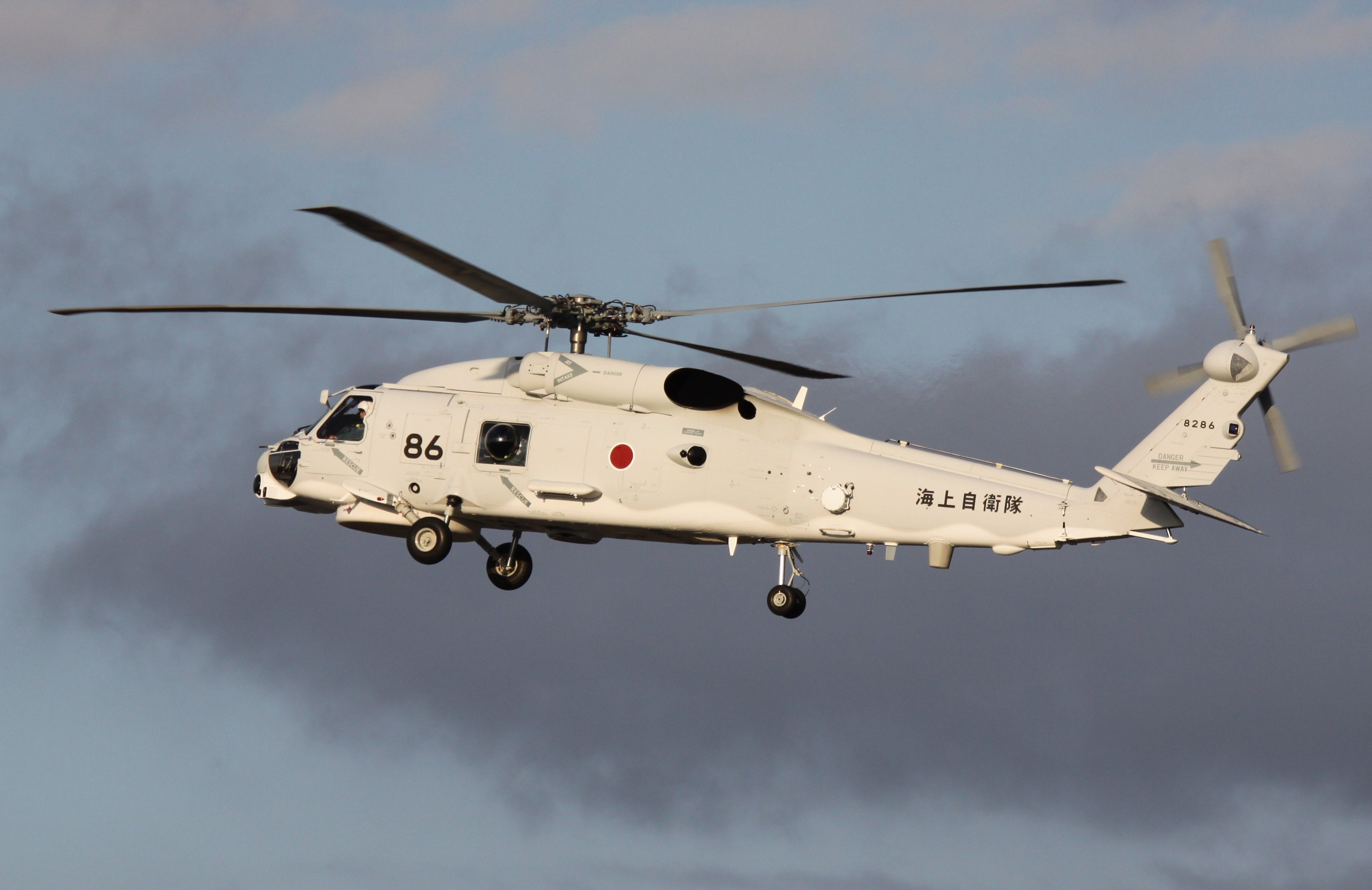 Test flight from Kanoya.